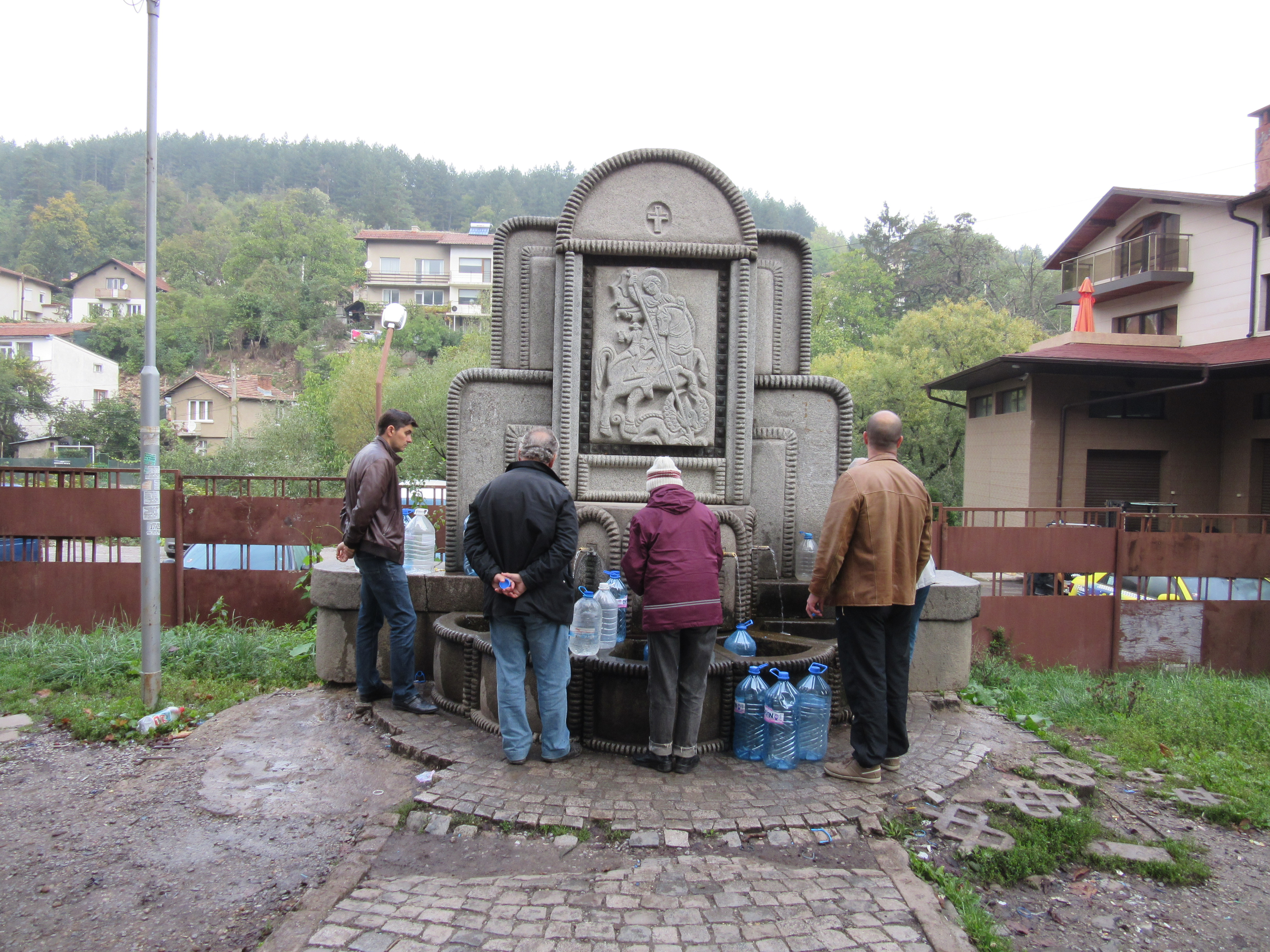 A mineral water fountain in Knyazhevo, Sofia